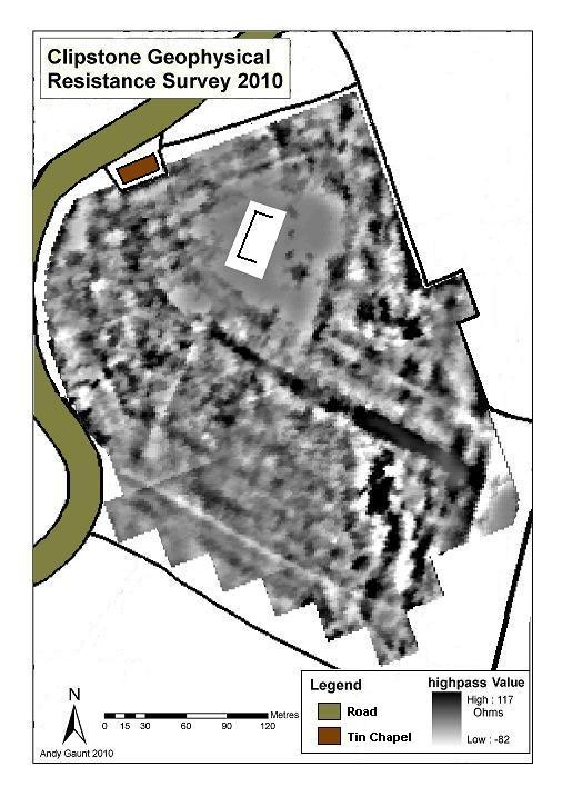 High pass resistivity geophysical survey of Castlefield, King's Clipstone, Nottinghamshire. Survey undertaken by Andy Gaunt (who kindly gave permission to use this specific image as part of the Wikipedia article on the site) during September 2010.